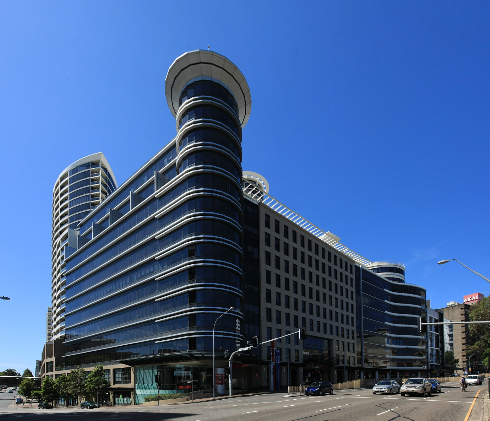 The Forum on the Pacific Hwy Stleonards